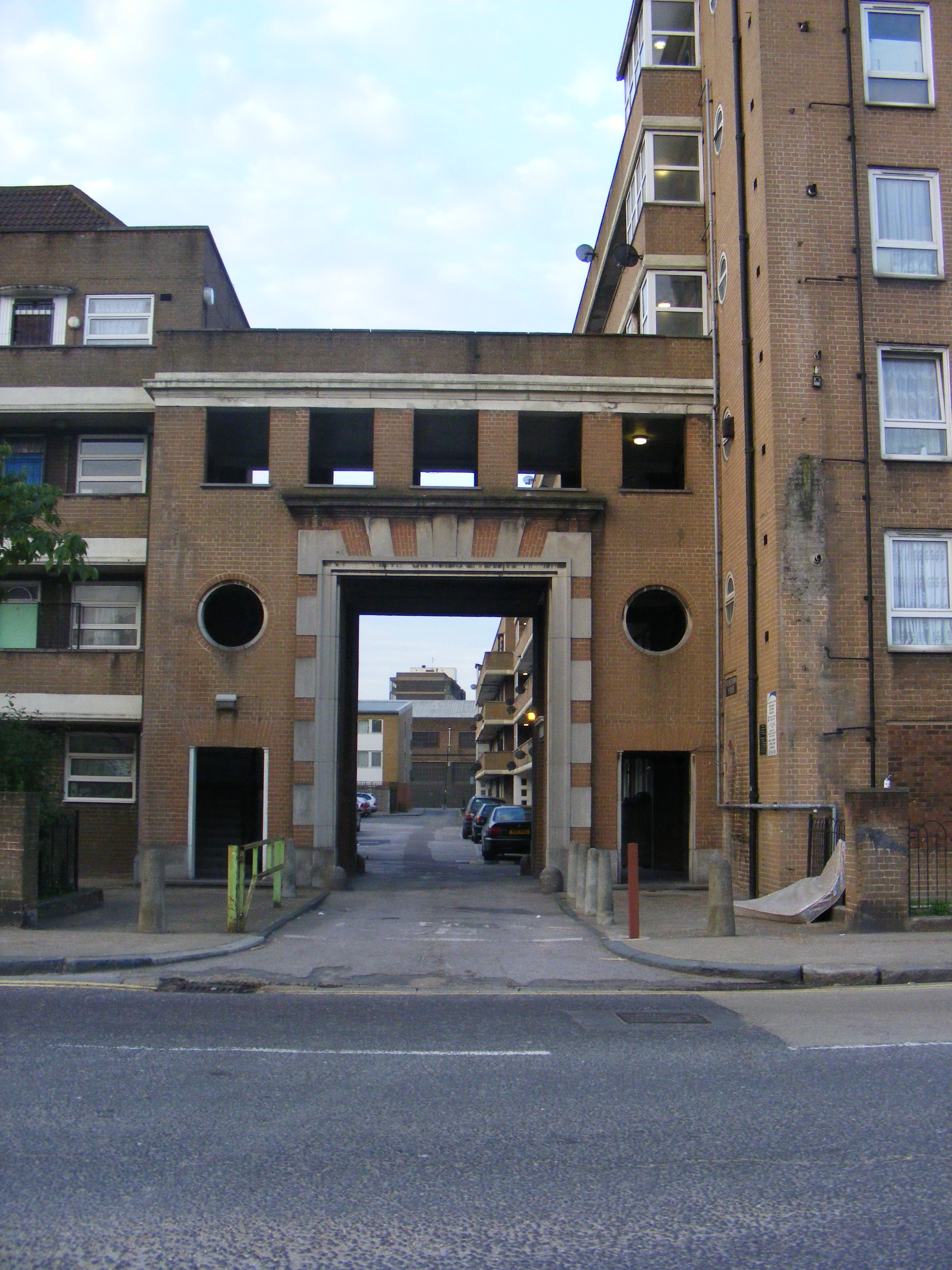 The Coventry Cross West Estate. The archway would not be out of place in early post war East Germany Almost Stalinist in its neoclassicism. The site of the Coventry Cross East estate has remained cleared for at least 6 years. What on earth is going on?